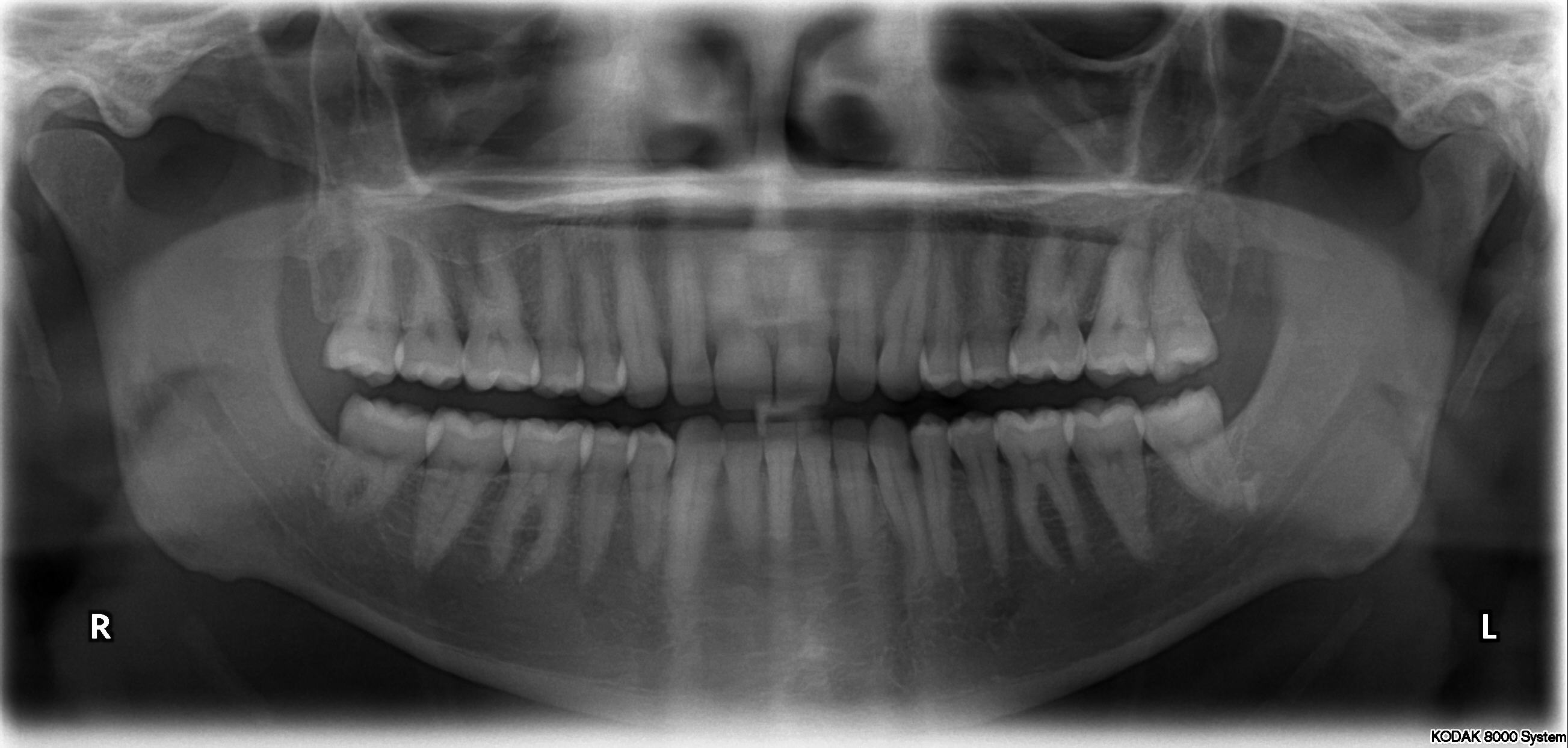 Panoramic X-ray of all 32 teeth of a male in his 40s with no cavities or fillings or other dental work.